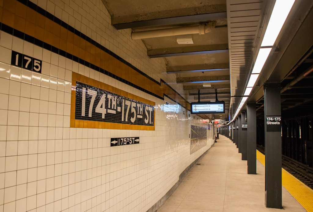 Renovated East 174th - 175th Street Street Station on the IND Grand Concourse Line